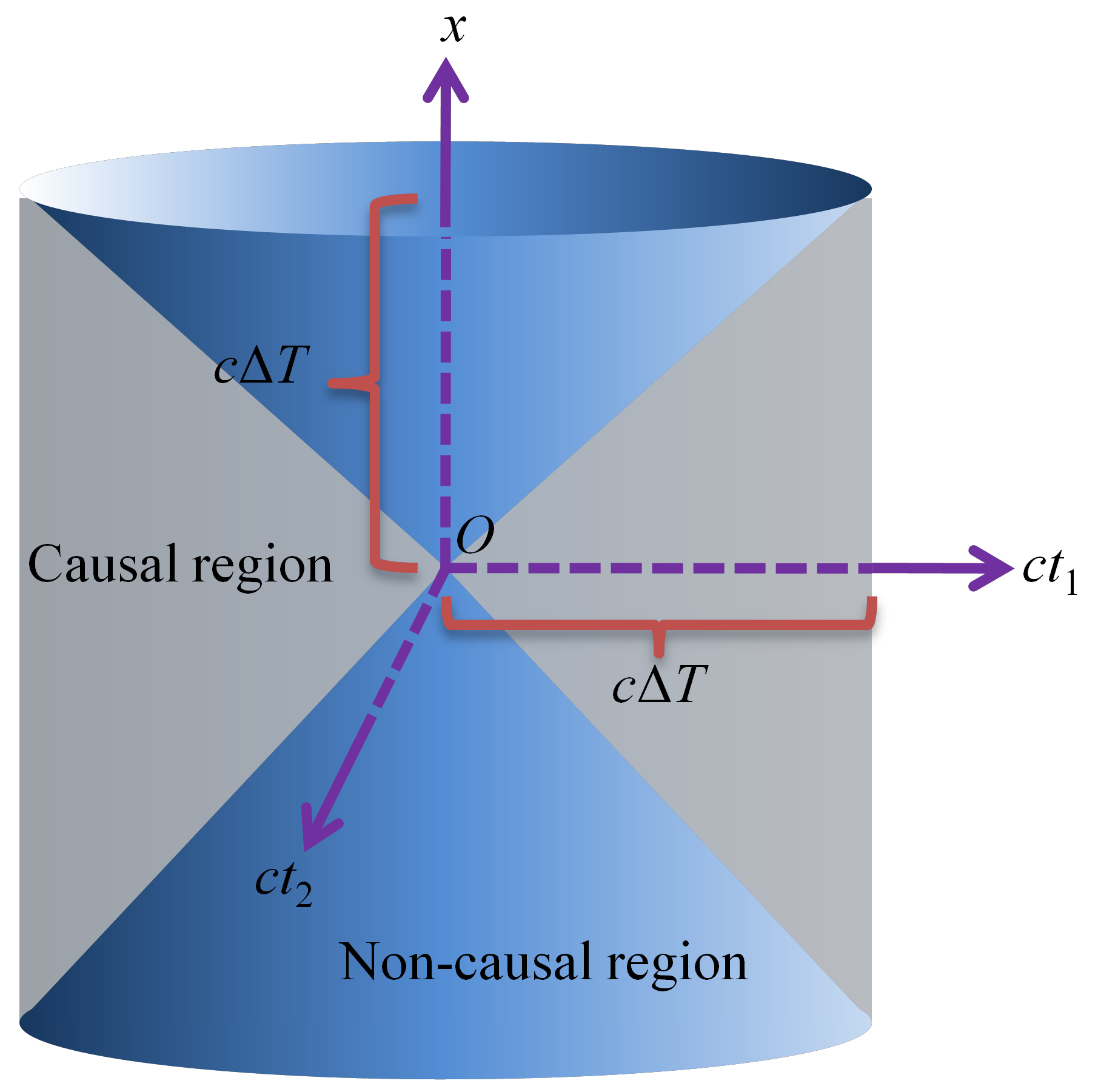 Causal structure of a space-time with two time dimensions and one space dimension